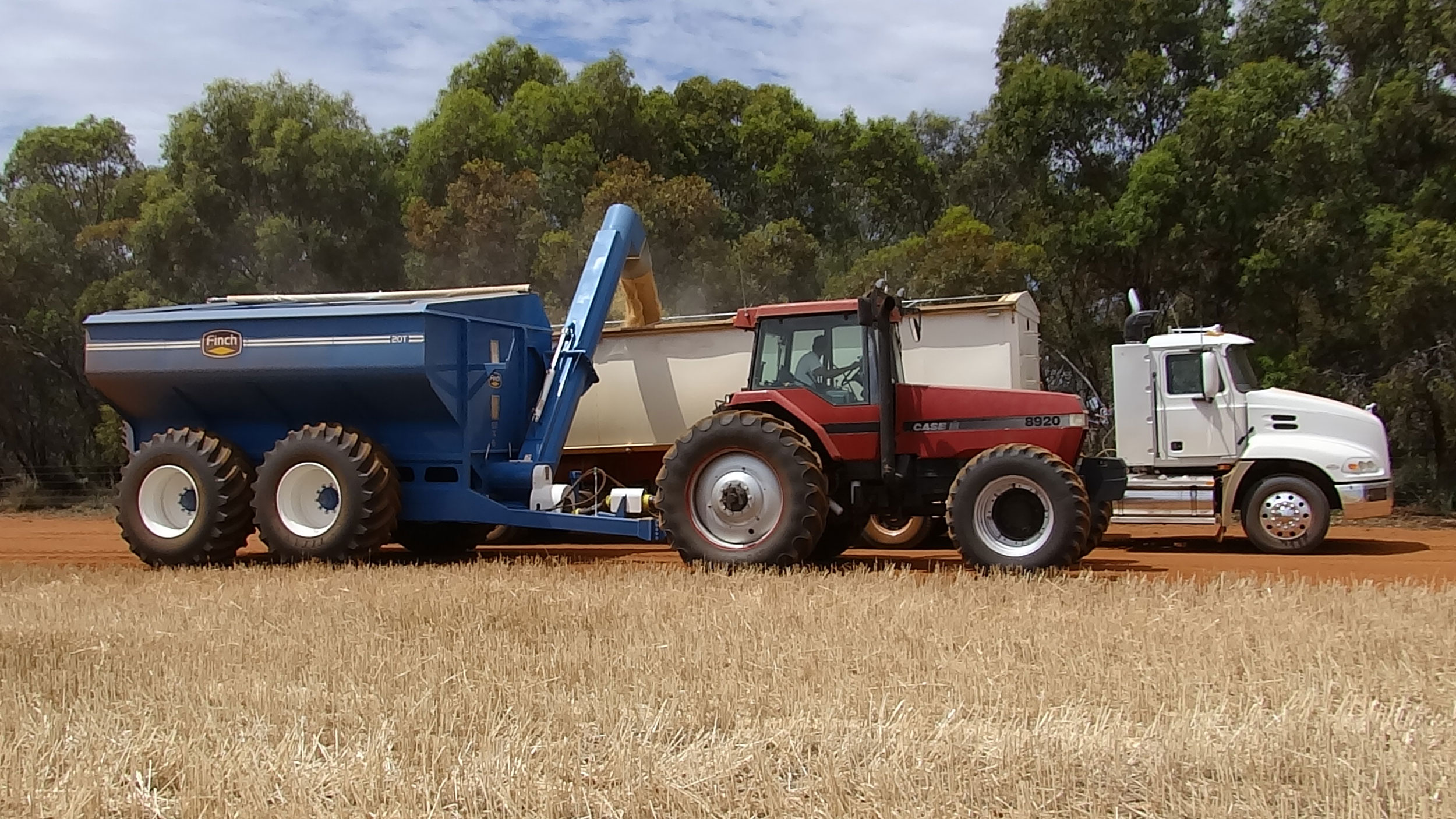 Chaser Bin unloading into Semi-Trailer.